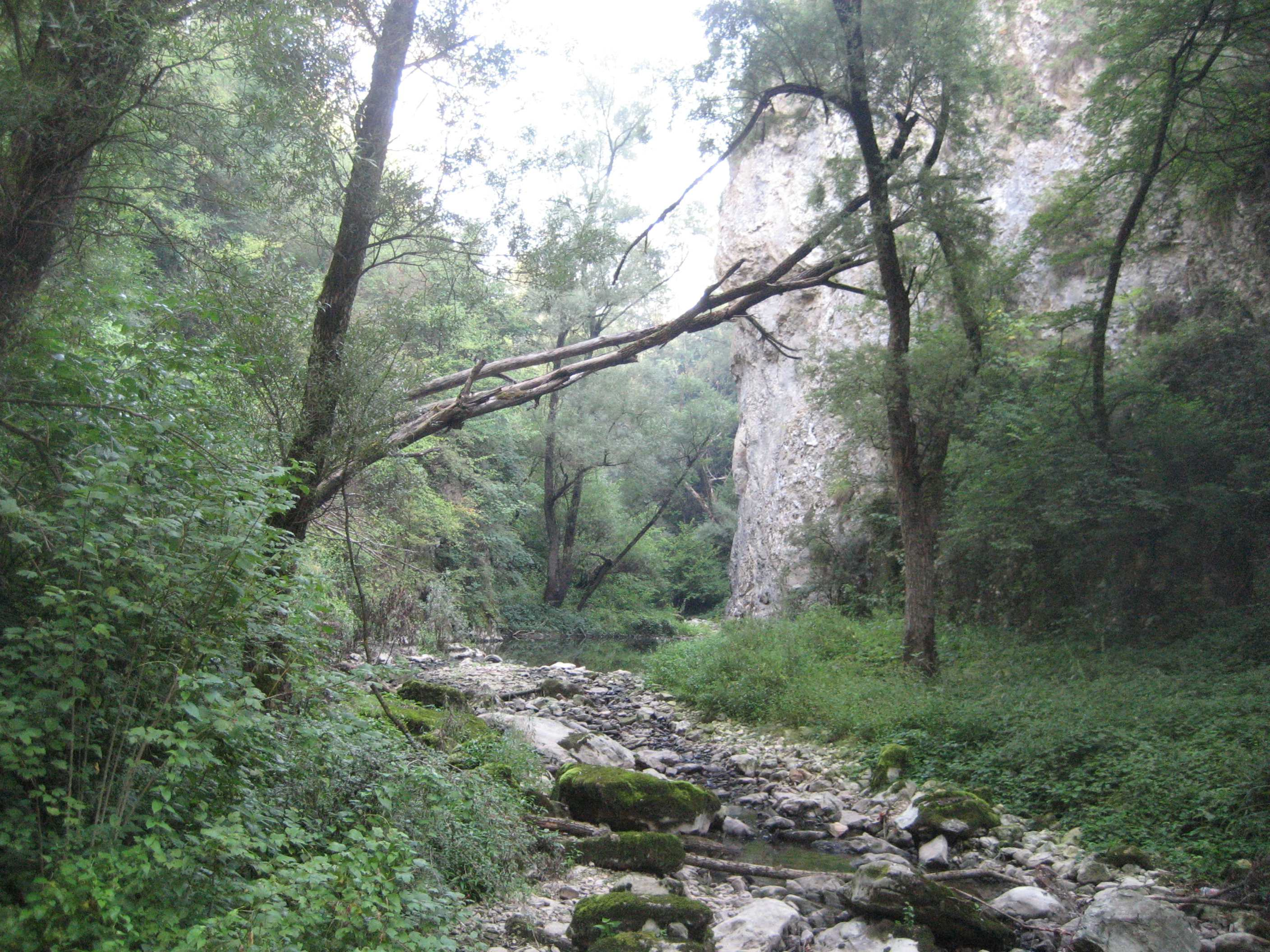 Pazincica_river,_Pazin,_northwest_Croatia